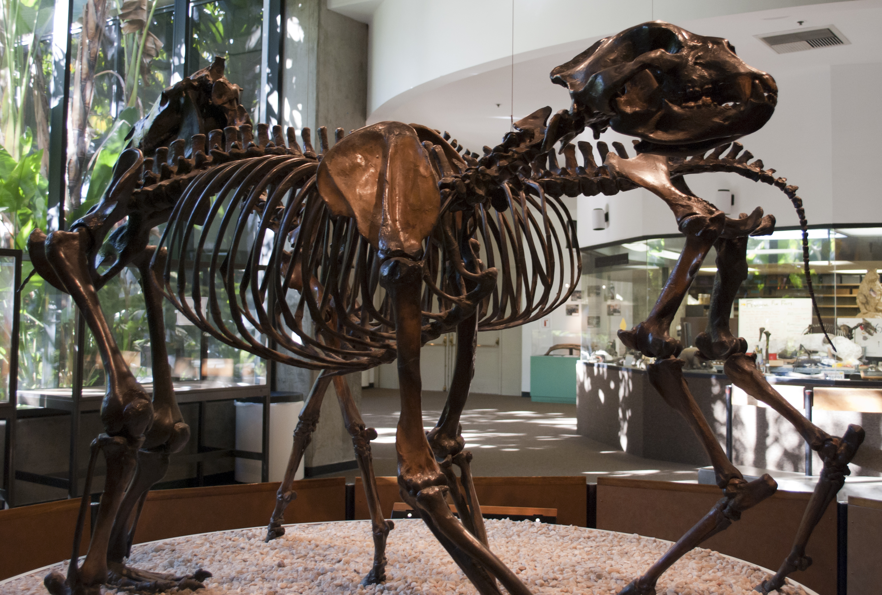 Skeleton of Arctodus simus, Taken at La Brea Tar Pits.